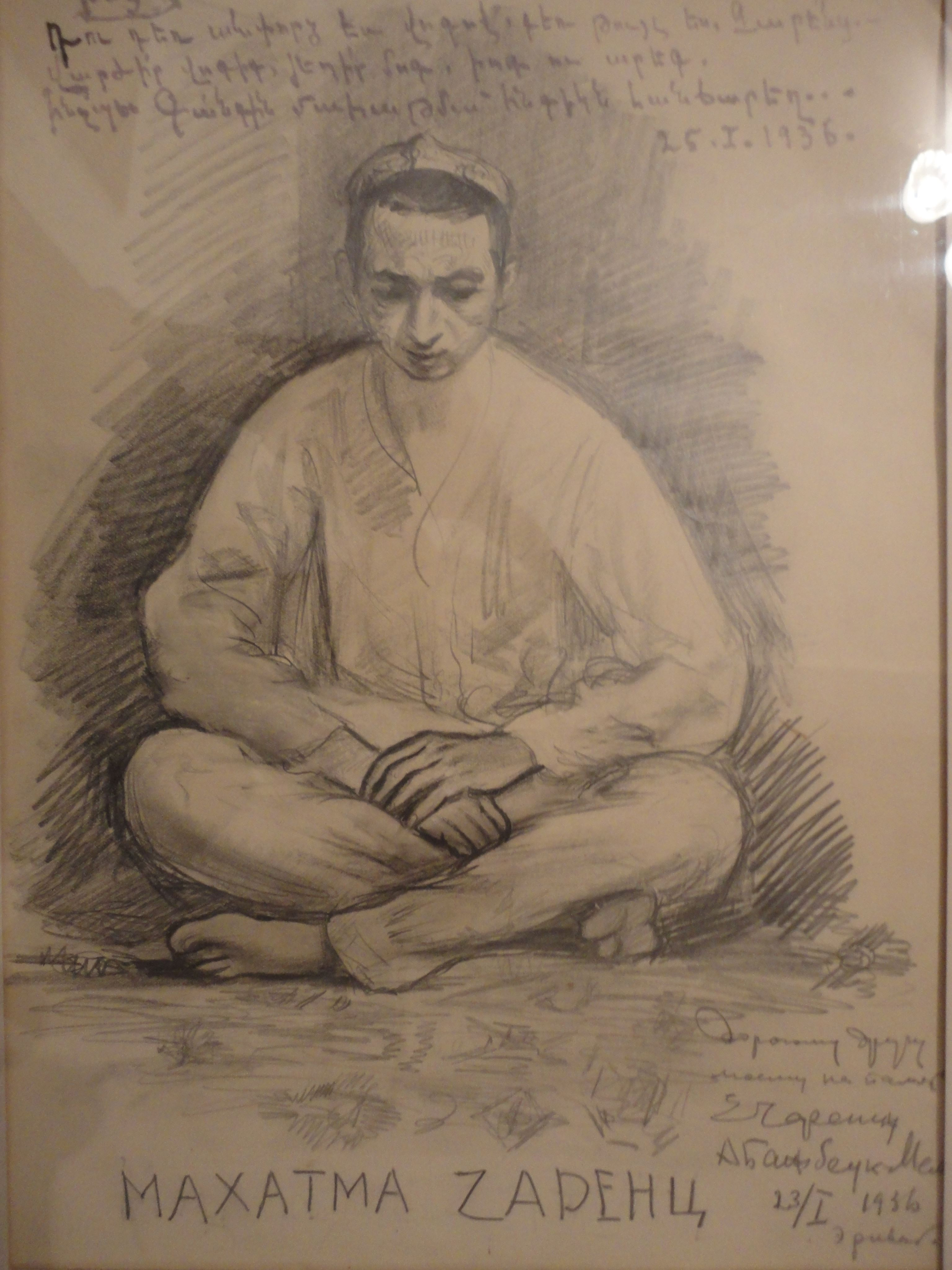 Mahatma Charents